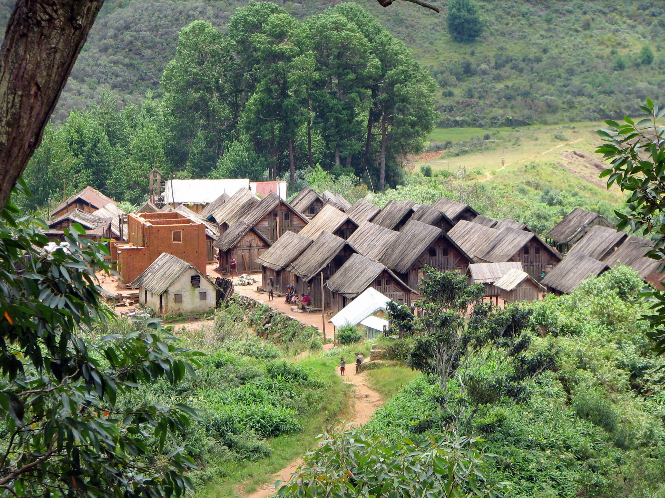 Village of Ifasina, Fianarantsoa province, Madagascar